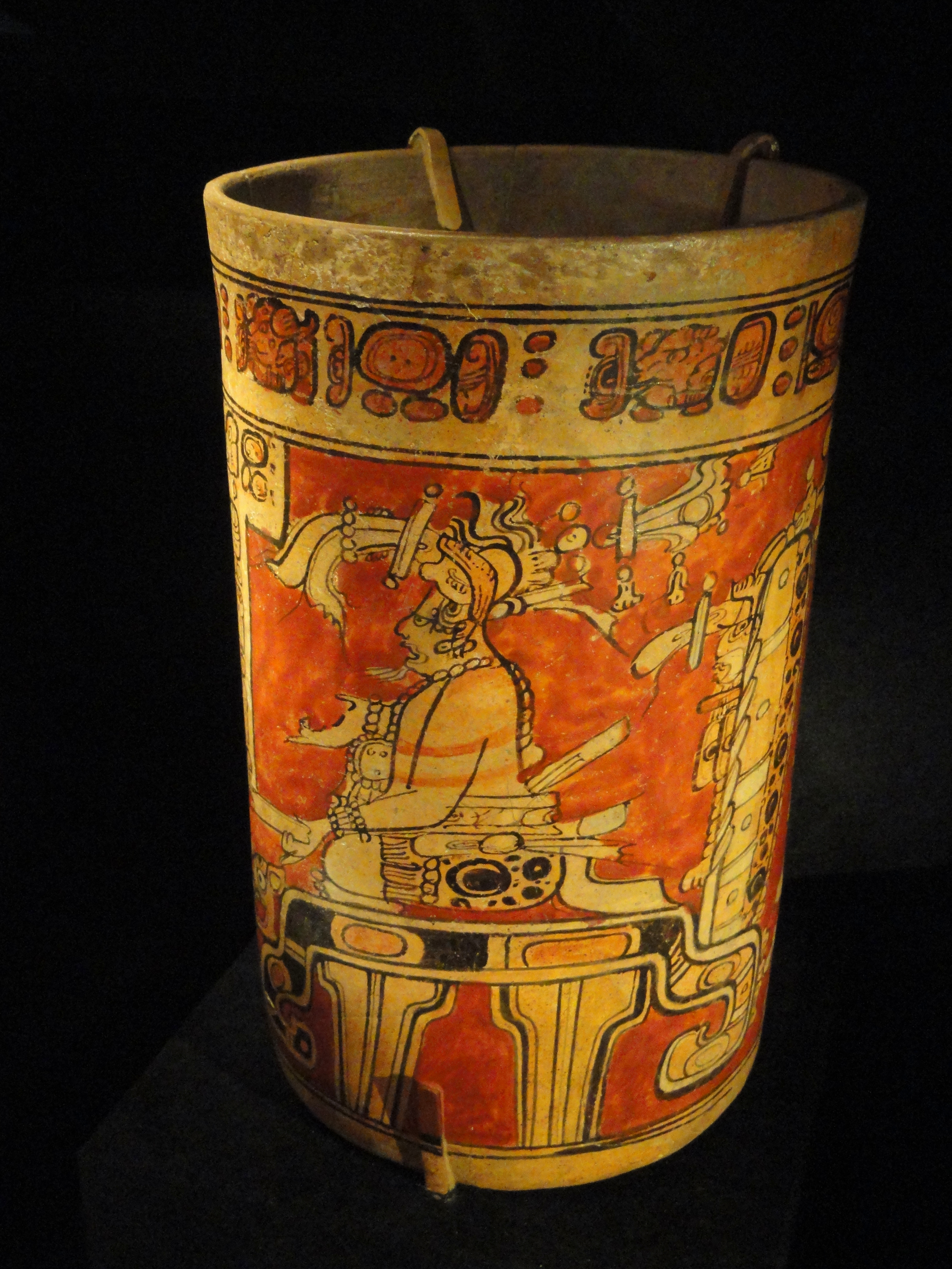 Exhibit in the Houston Museum of Natural Science, Houston, Texas, USA.